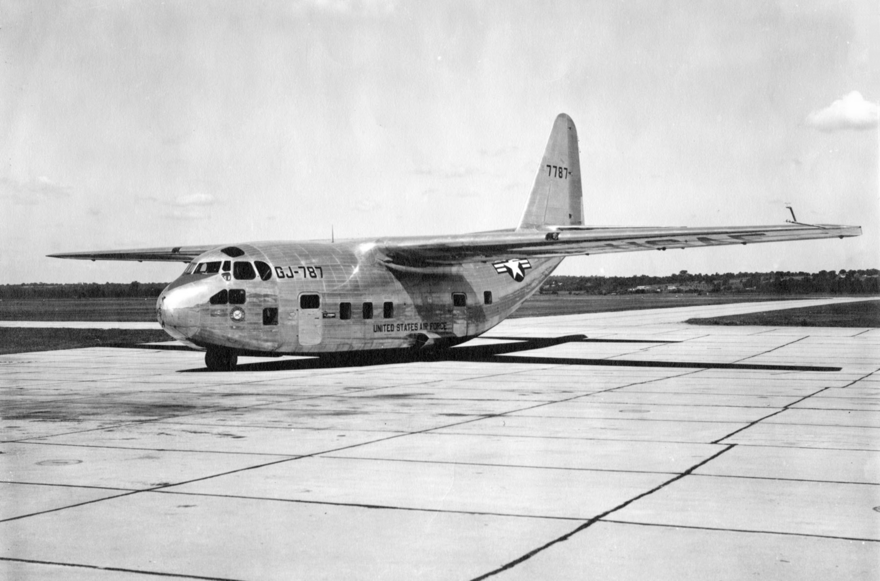 the U.S. Air Force Chase XG-20 glider (s/n 47-787), from which the Fairchild C-123 Provider evolved. There was no provision for fuel in this glider, so the C-123’s fuel tanks were located in the rear part of the engine nacelles. This aircraft was later converted to the XC-123A prototype. Later again it became the single YC-123D, fitted by Stroukoff with boundary layer control system for improved STOL performance.